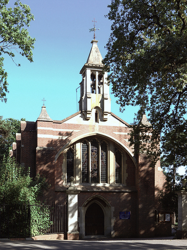 St Michael and All Angels parish church, Bassett Avenue, Southampton, Hampshire, seen from the west